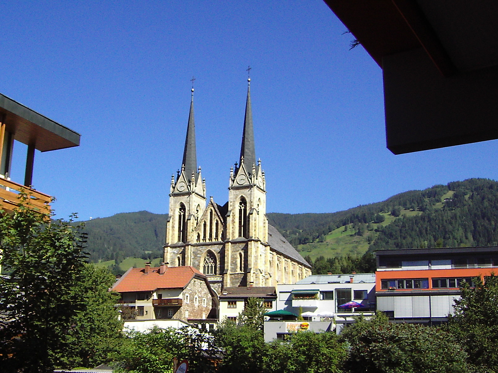 Exterior View Of The Cathedral Of St. Johann im Pongau, Salzburger Land - Austria